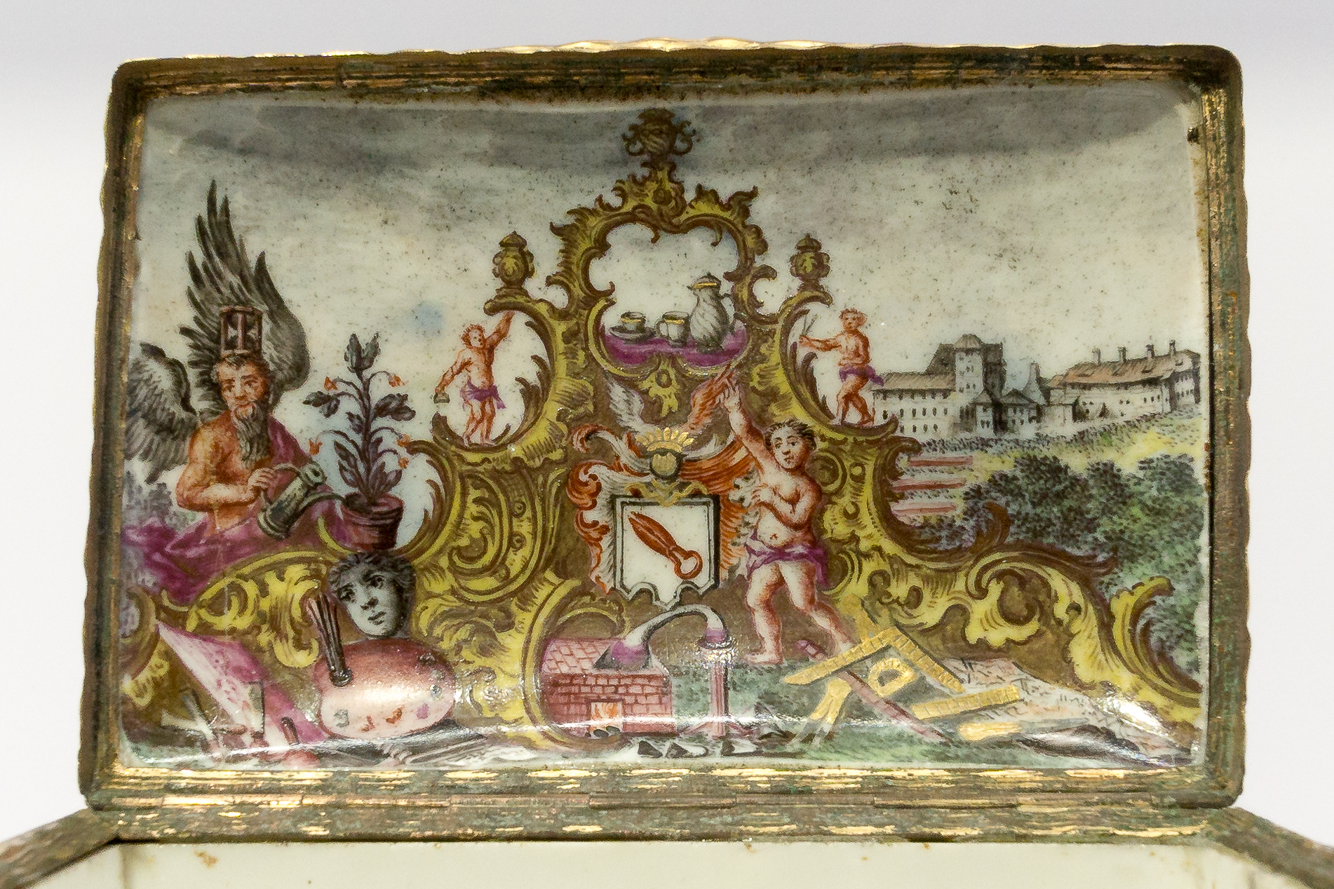 Snuffbox bearing the coat of arms of Johann Georg von Langen